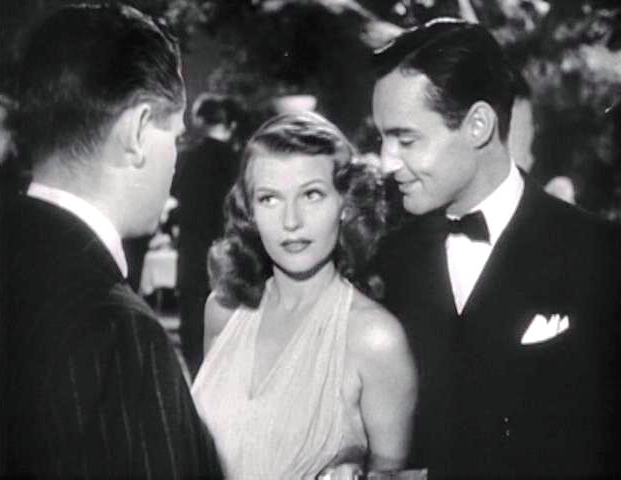 (Glenn Ford), Rita Hayworth, Mark Roberts in the Gilda trailer.